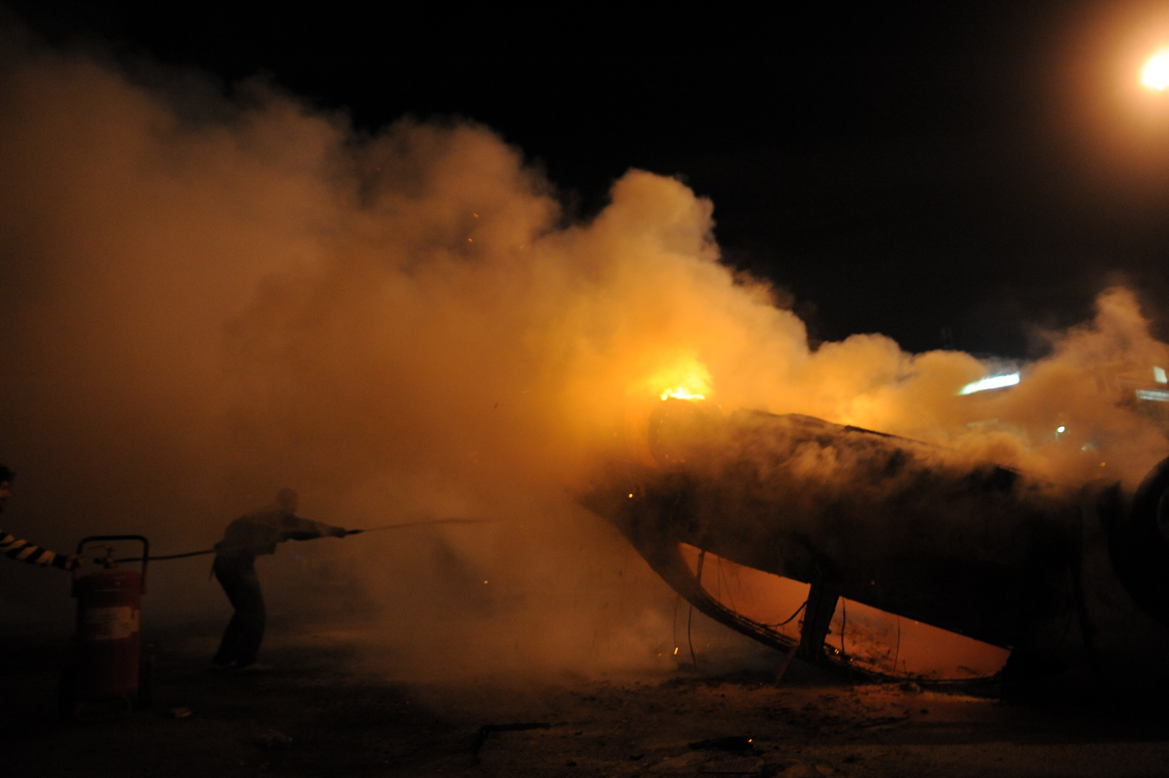 Protesters fighting fires at Taksim square. Events of June 3, 2013.